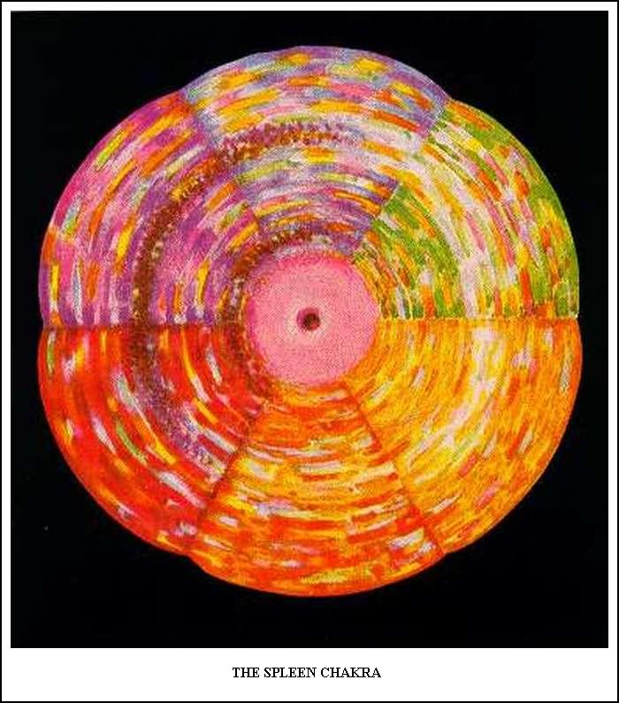 The spleen chakra